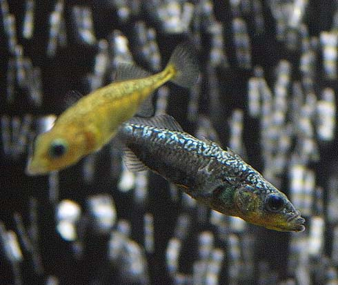 Naked threespines stickleback (Gasterosteus microcephalus (Girard, 1854)) from Osaka Suido Kinenkan (water supply memorial museum), Japan